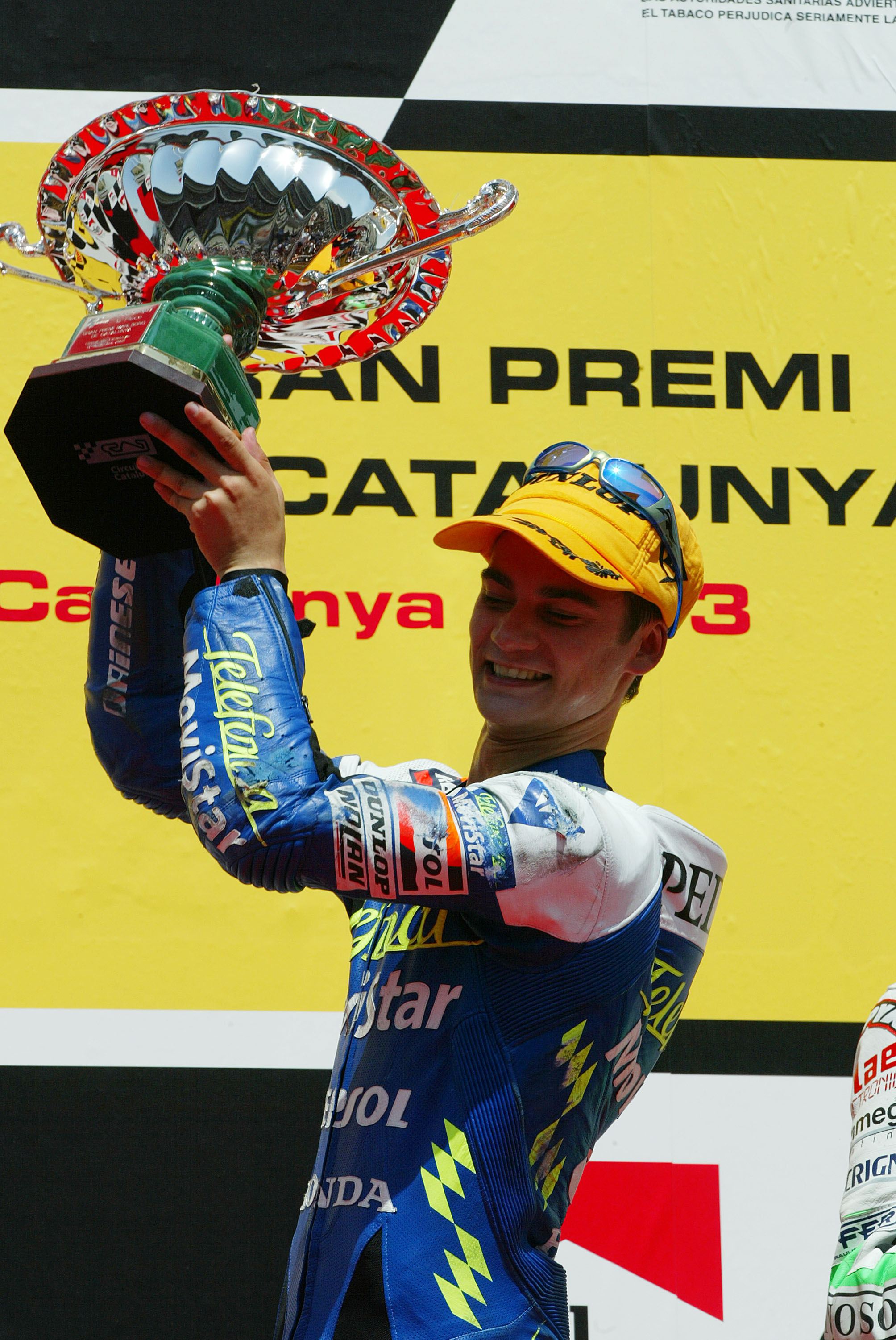 Dani Pedrosa, lifting his trophy and celebrating on the podium after winning the 2003 Catalan Grand Prix.